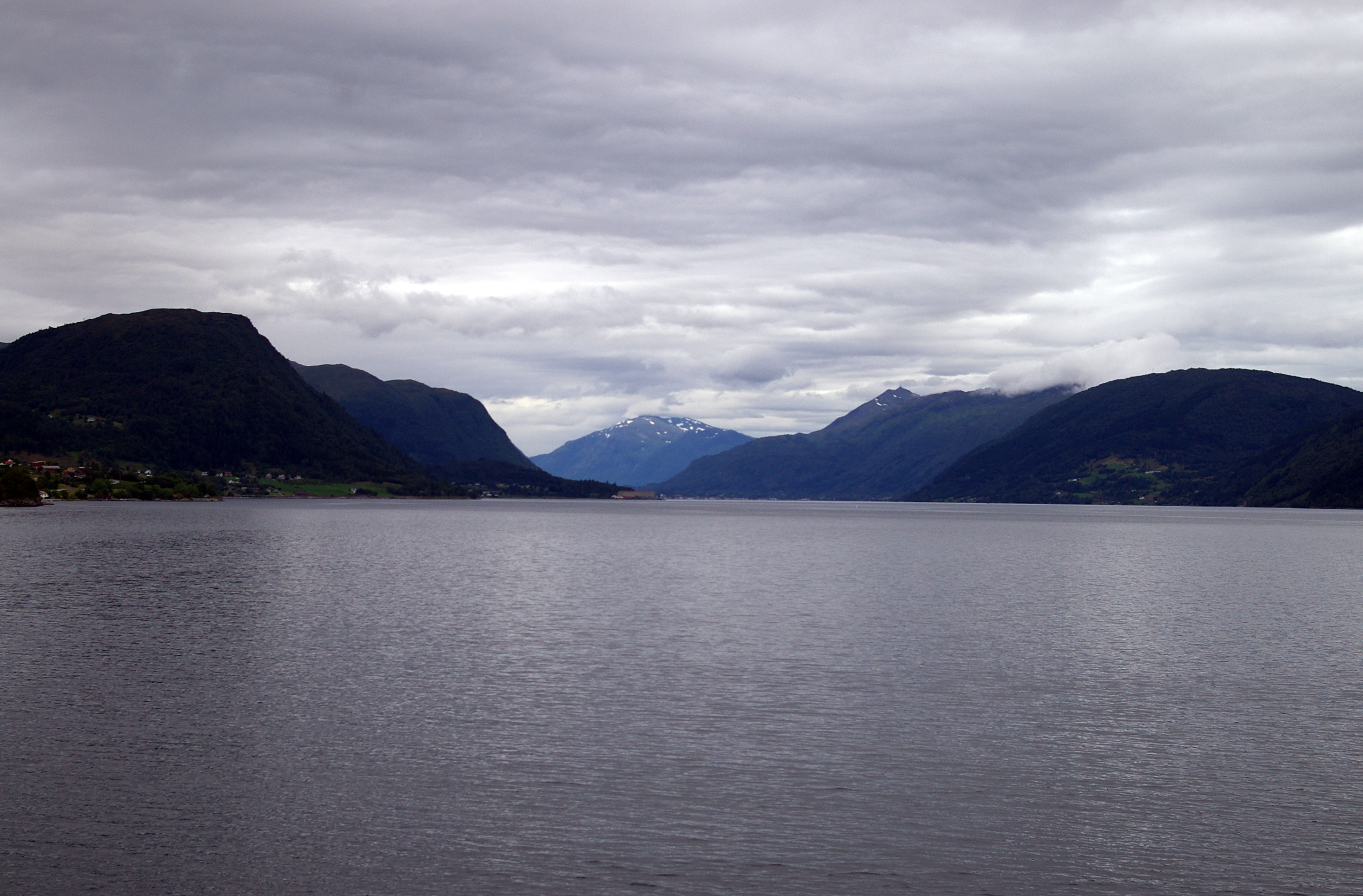 Eidsfjorden in Nordfjord, Sogn og Fjordane, Norway.